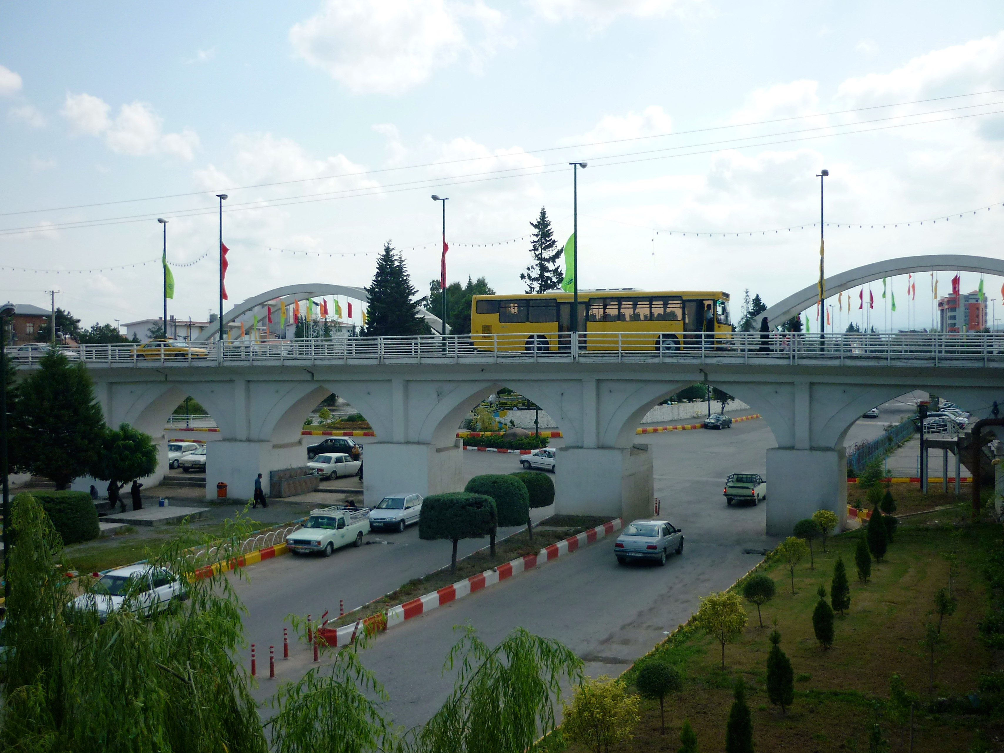 2 Bridge in city